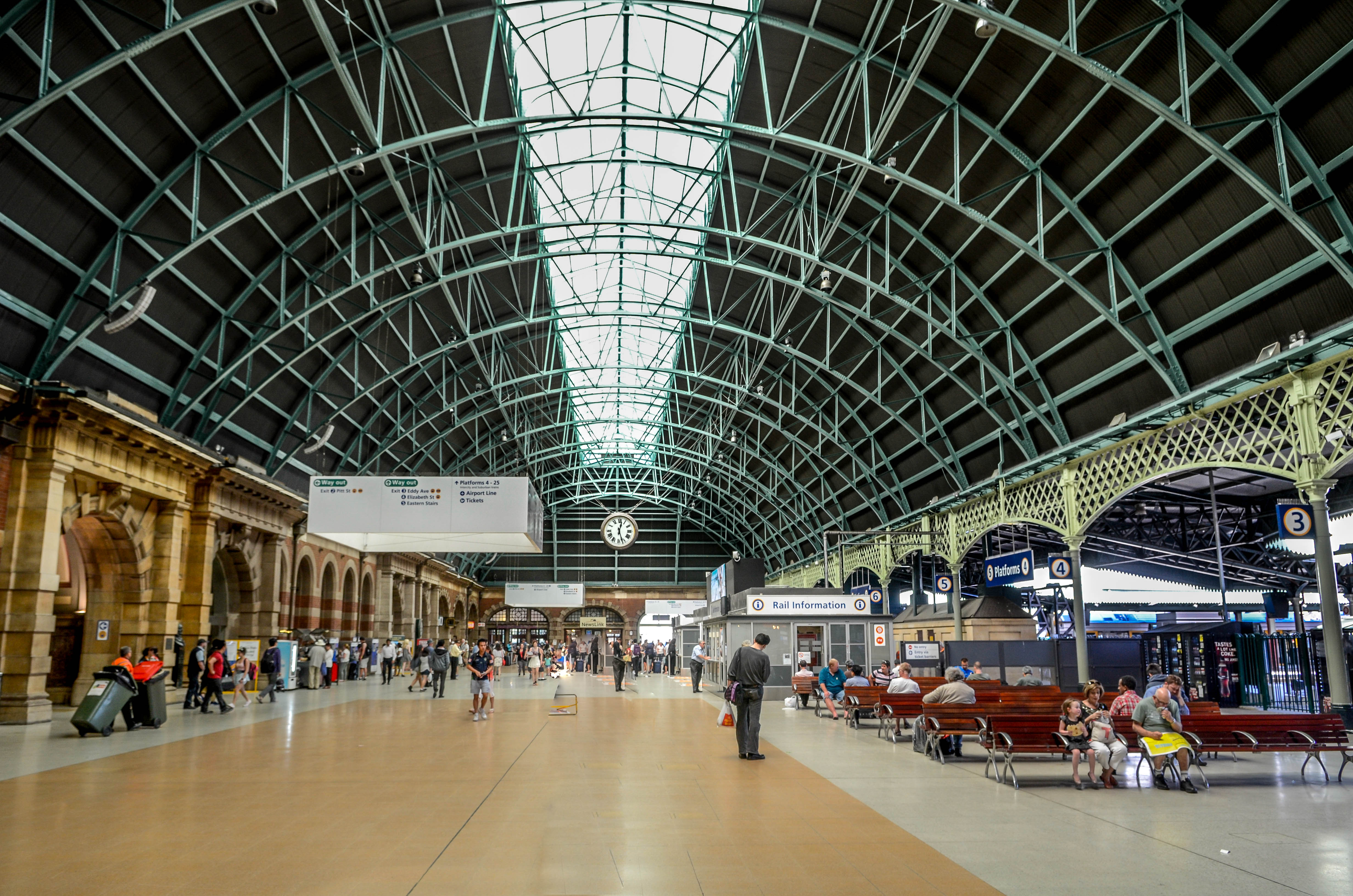 Inside central railway station. sydney